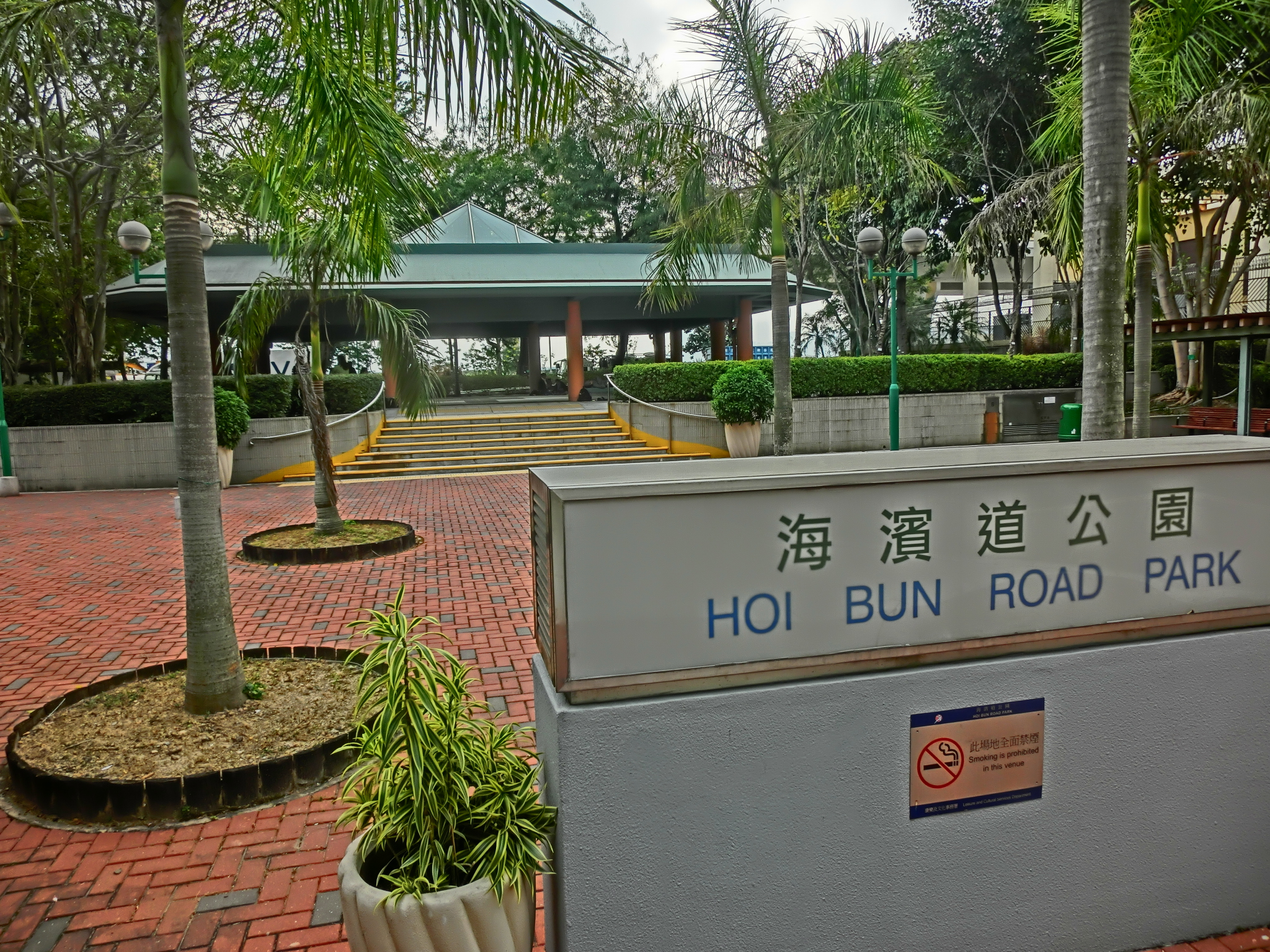 觀塘 海濱道公園, Hoi Bun Road Park, Wai Yip Street, Hoi Bun Road, Kwun Tong, Hong Kong